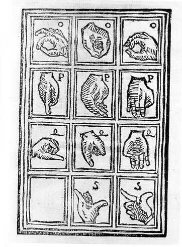 Originally published in "Thesavrvs Artificiosae Memoriae", by COSMAS ROSSELLIUS (d. 1578) Venice, Antonio Padovani, 1579. Published posthumously, Thesaurus is in the mediaeval tradition of memory systems. Particularly favorable to the Dantesque type of memory loci, Rossellius encourages the mnemonist to picture in his mind Hell and Paradise with the vividness of a Renaissance painting. He also advocates the use of the constellations as loci. The usual visual alphabet is given extensive treatment. In this context Rossellius describes a digital alphabet, or sign manual, for the fingers. Accompanying the description are five woodcuts containing the earliest known representation of a digital sign language. Together with Host von Romberch, Rossellius became one of the most widely read and influential writers of the sixteenth century on the art of memory. (Adams R803; BMC Italian books p. 588; Young p. 307) (above description from